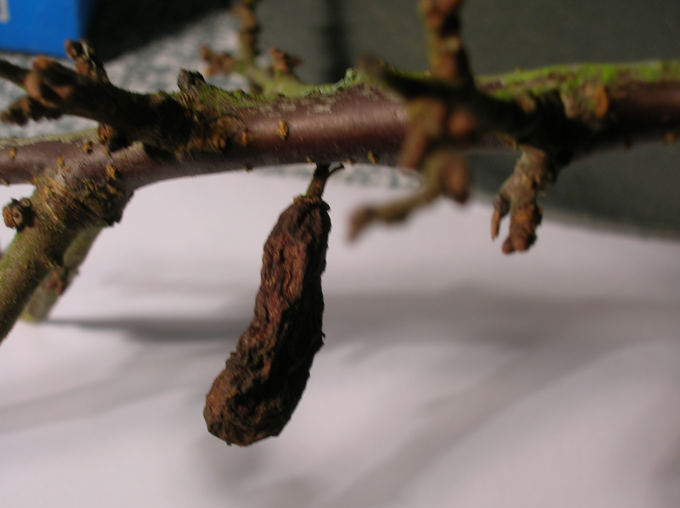 A Pocket Plum gall (Taphrina pruni) on Blackthorn (Prunus spinosa). Eglinton Country Park, Ayrshire, Scotland.